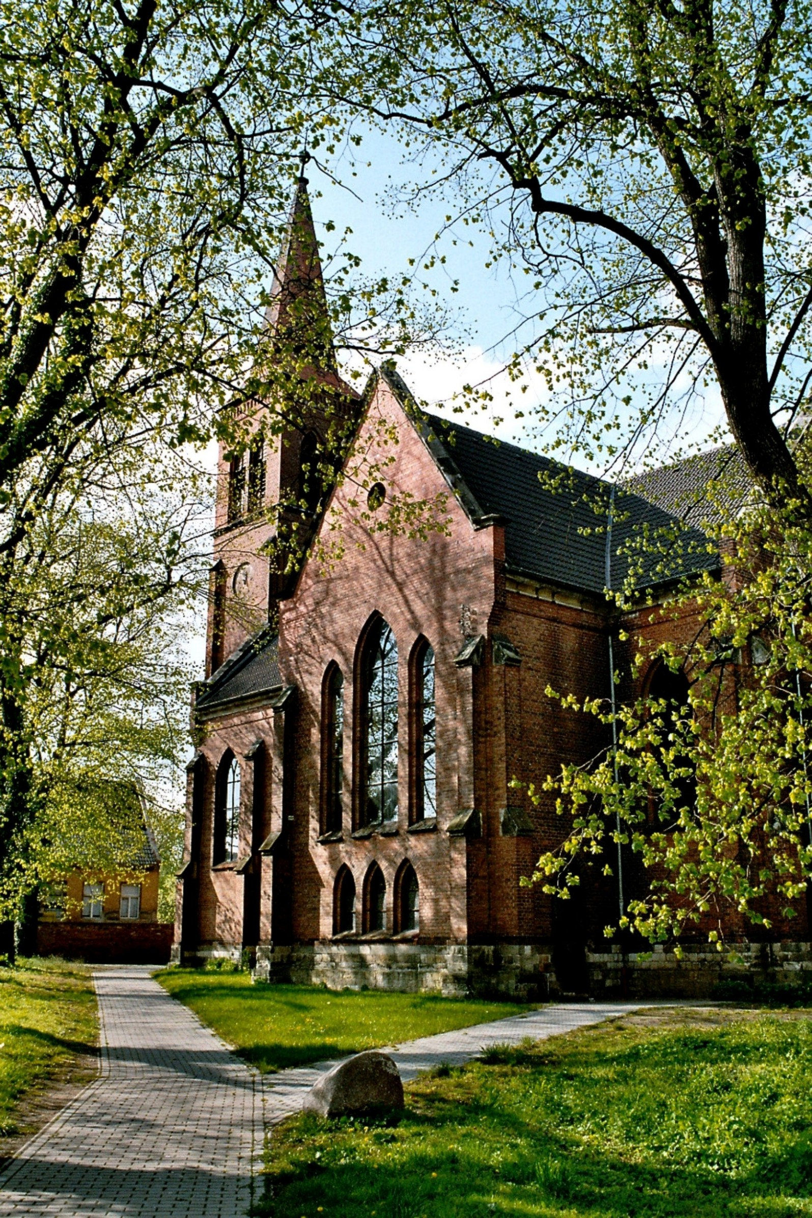 Großmühlingen (Bördeland), the Saint Peter Church